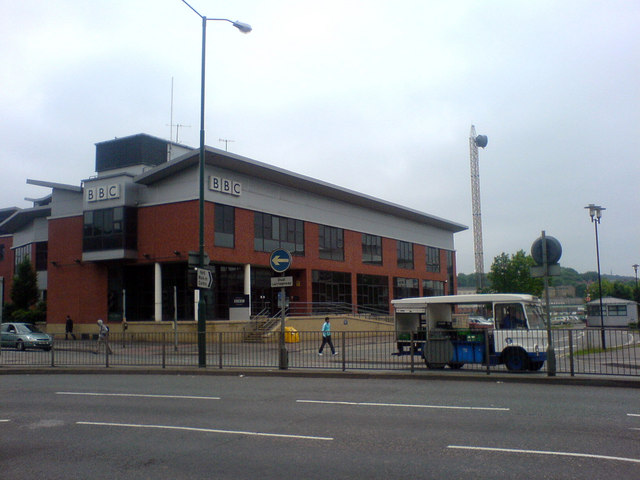 Auntie Beeb's Nottingham Premises The Nottingham branch of the British Broadcasting Corporation on London Road.